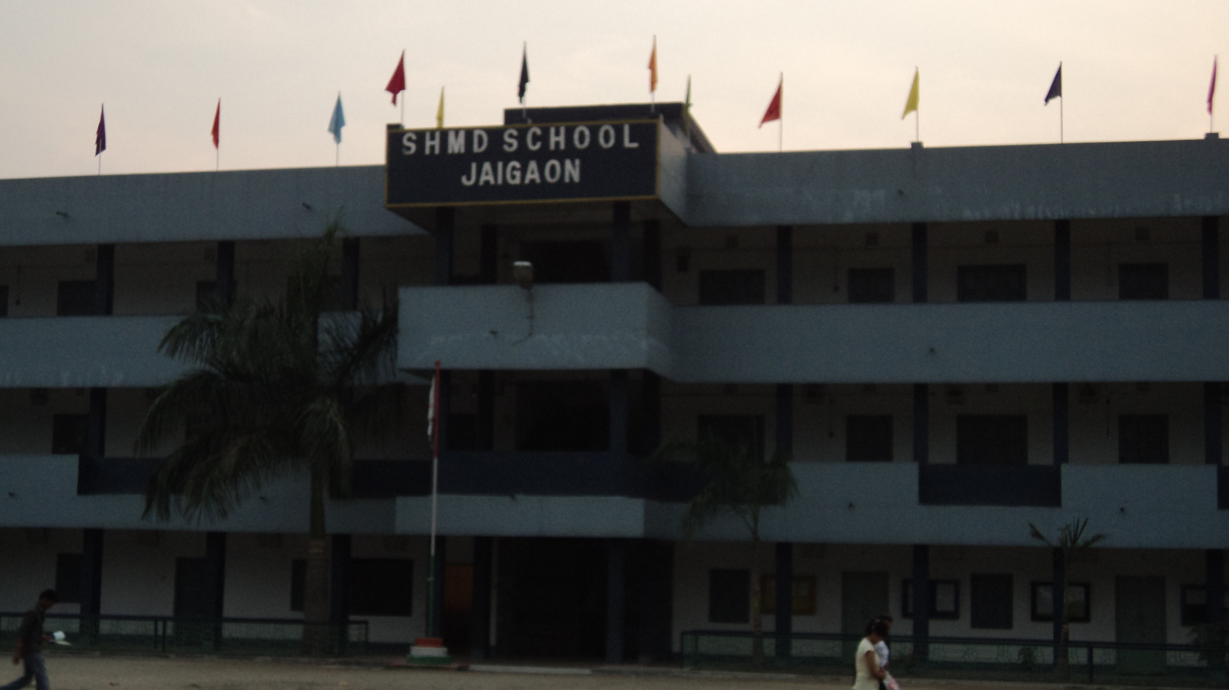 The view of the school's main building